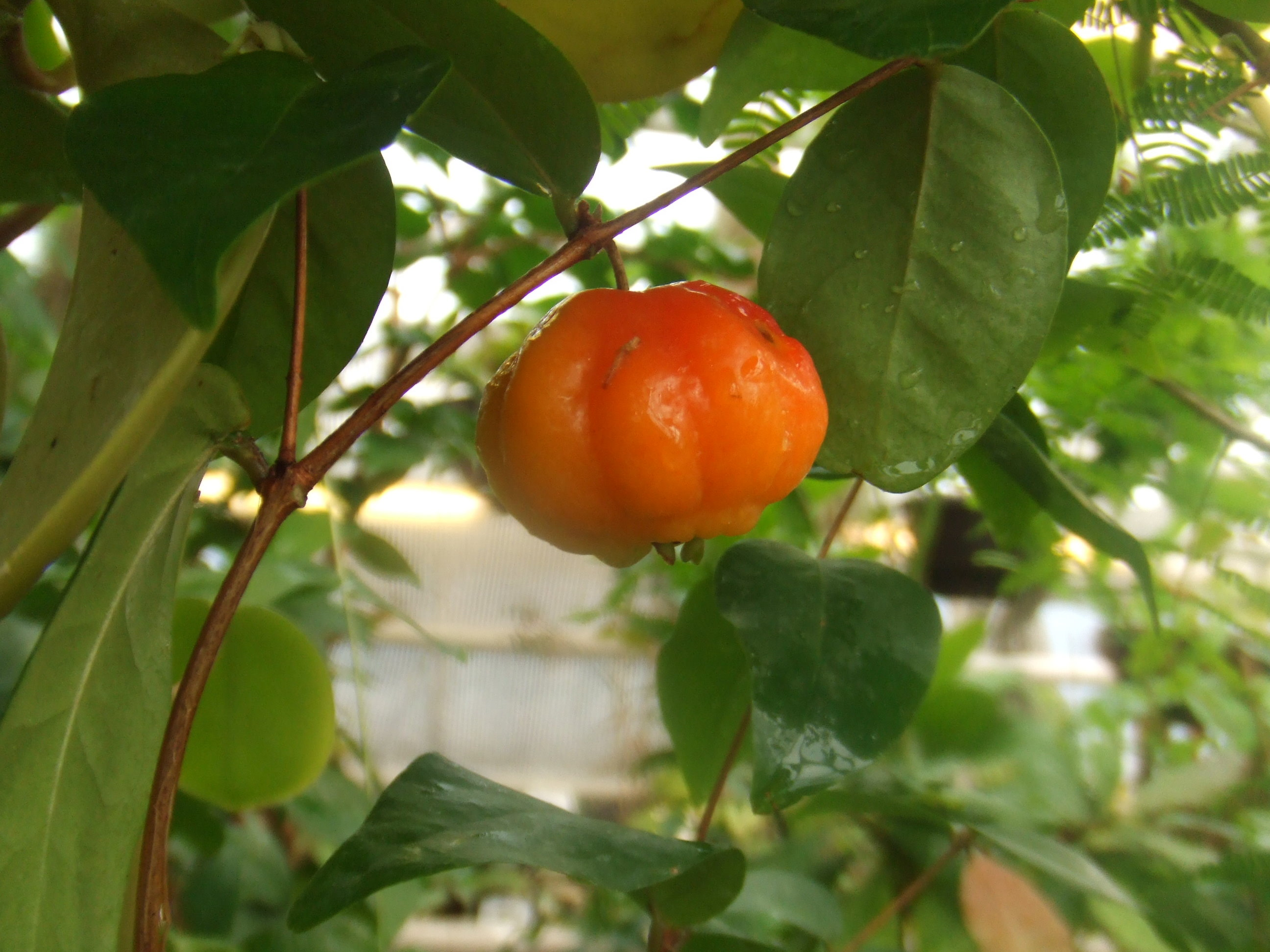 Eugenia uniflora, picture taken at the Botanische tuin TU Delft in Delft, The Netherlands